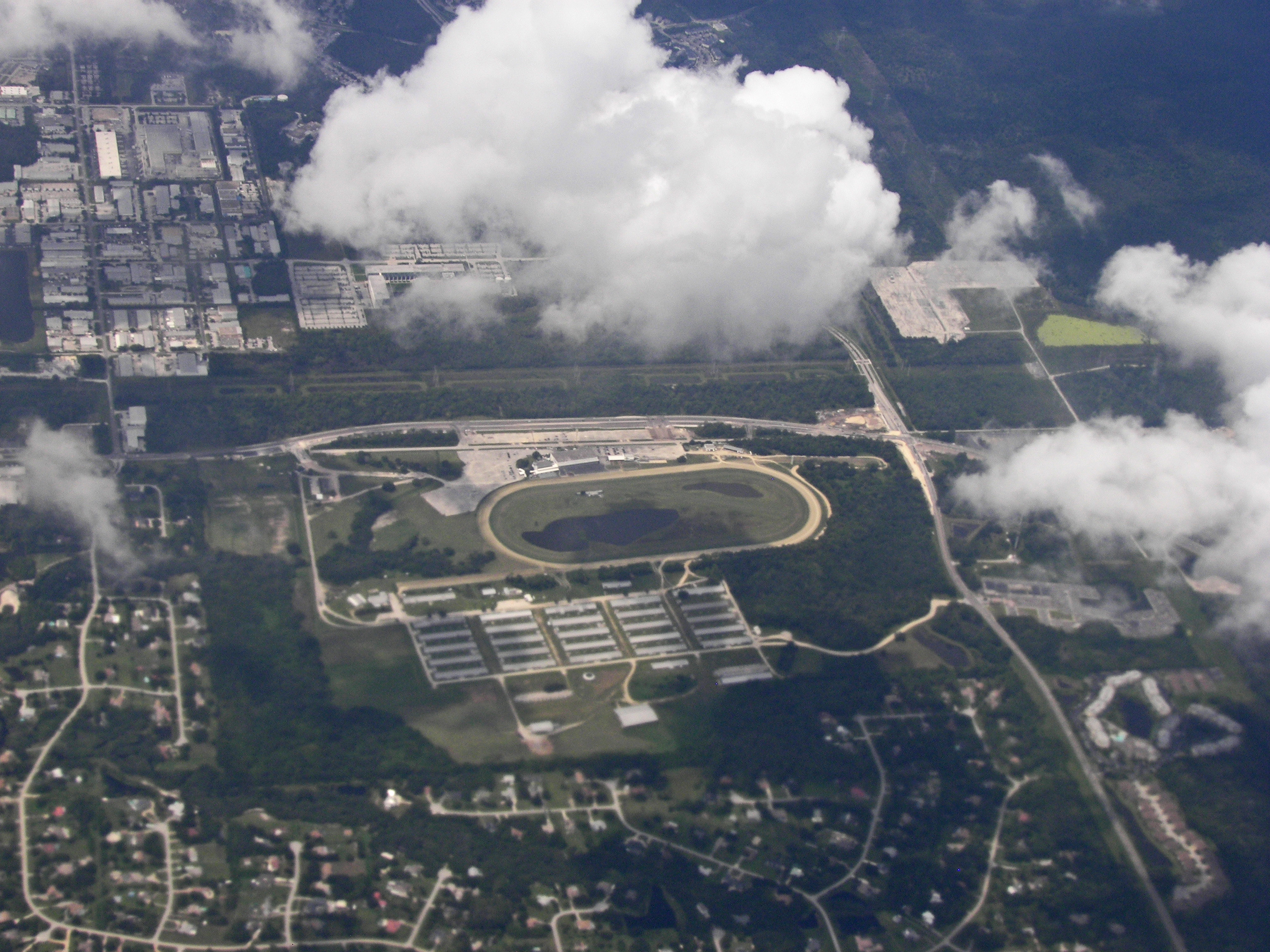 Aerial view of Tampa Bay Downs racetrack in Westchase, Florida from the east.